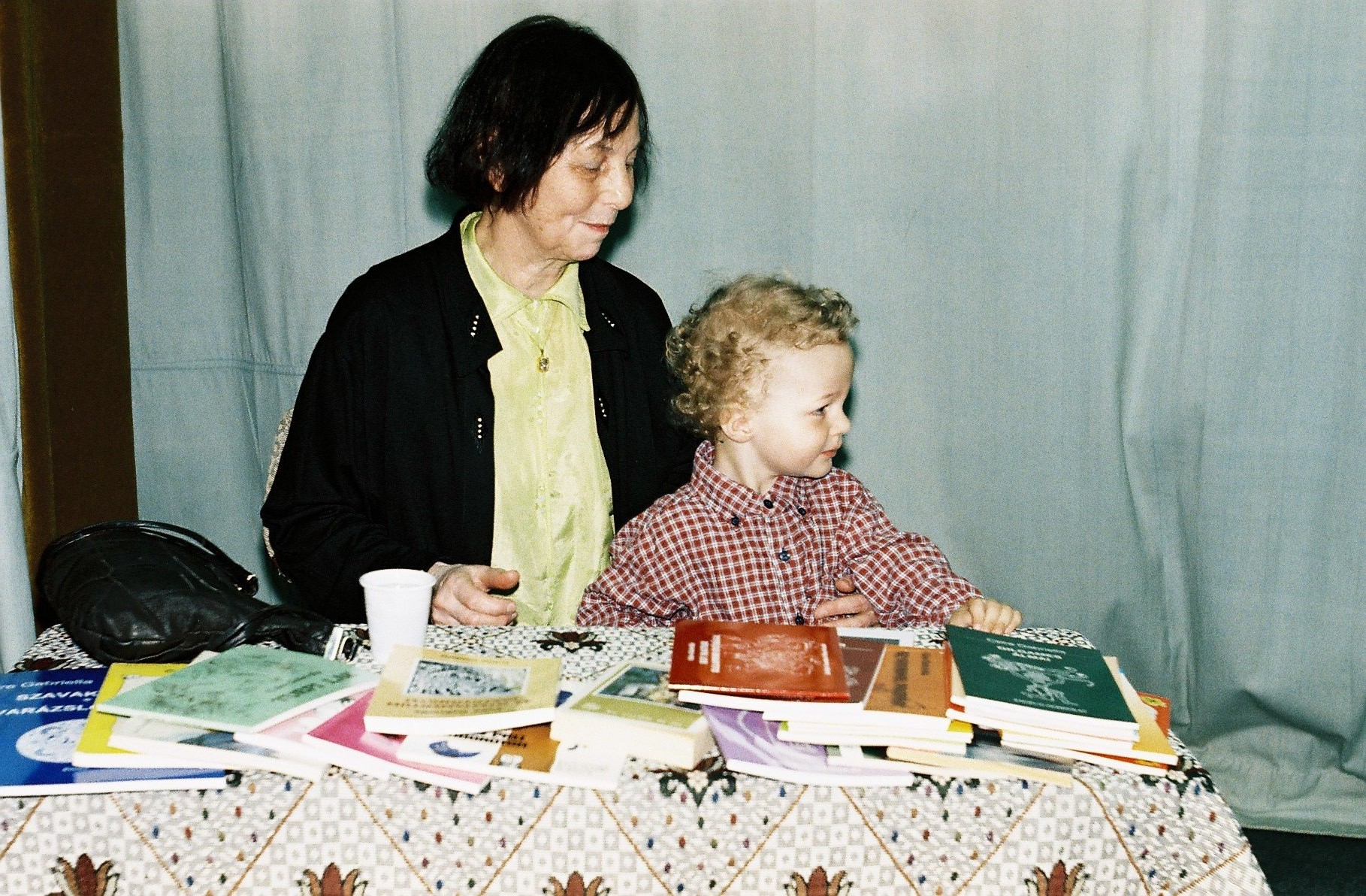 Gabriella Csire authoress with grandchild